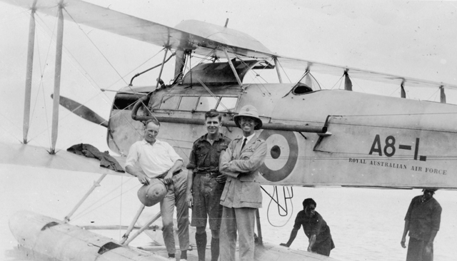 Group Captain Richard Williams (right) and crew (Flight Lieutenant Ivor McIntyre (left) and Flight Sergeant Les Trist (centre)) pictured with their DH50A seaplane on historic Pacific Islands flight between 25 September and 7 December 1926